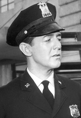 Photo of Orson Bean as Mr. Bevis and William Schallert as the policeman from the Twilight Zone episode "Mr. Bevis".